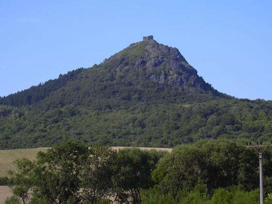 Košťálov castle ruins above Třebenice, Czech Republic